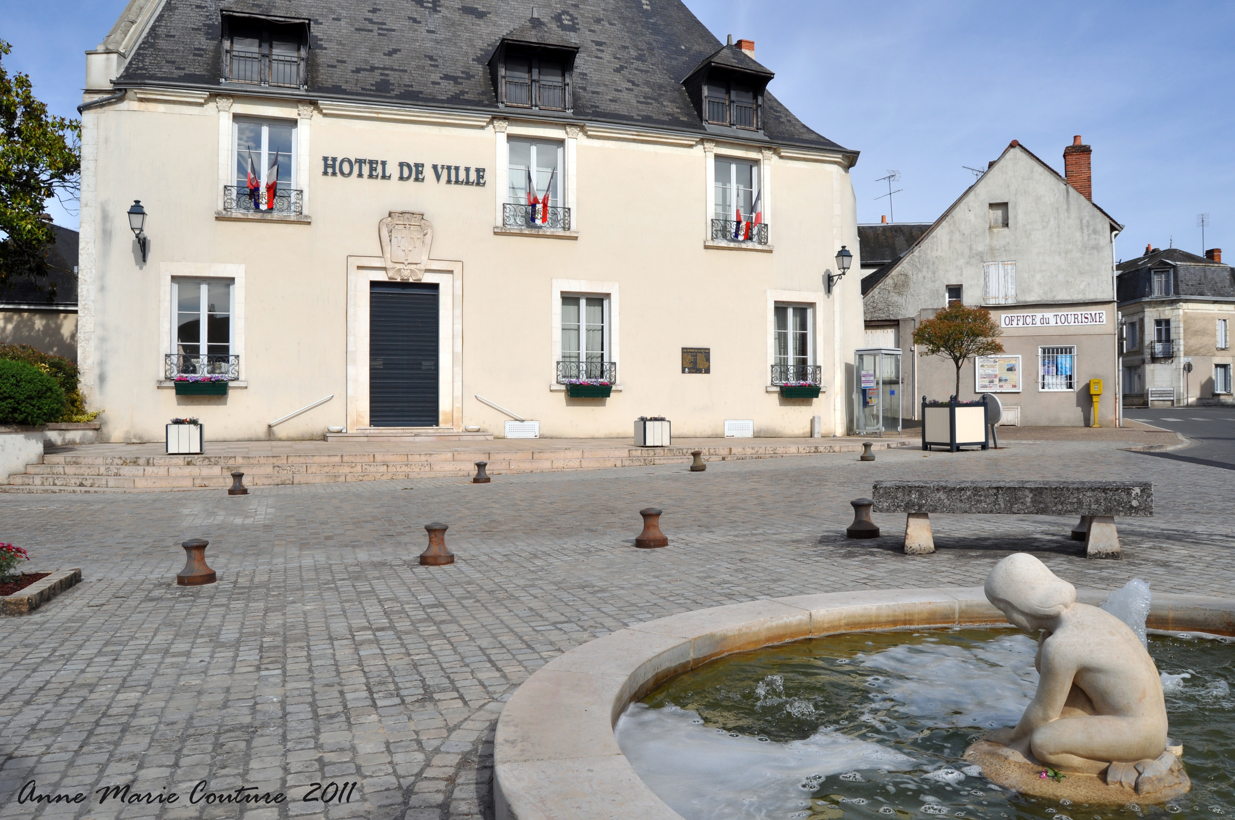 Écueillé, the city Hall